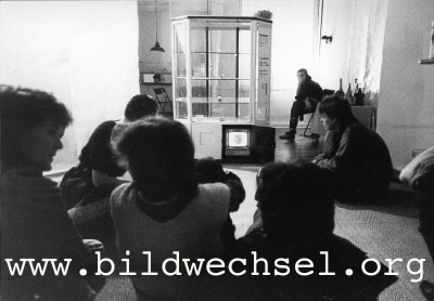 at bildwechsel